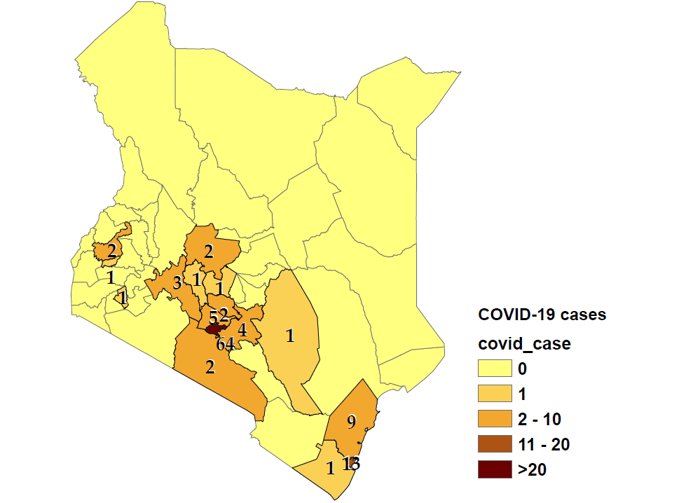 Map of counties with confirmed COVID-19 cases in Kenya as of 26 March 2020.